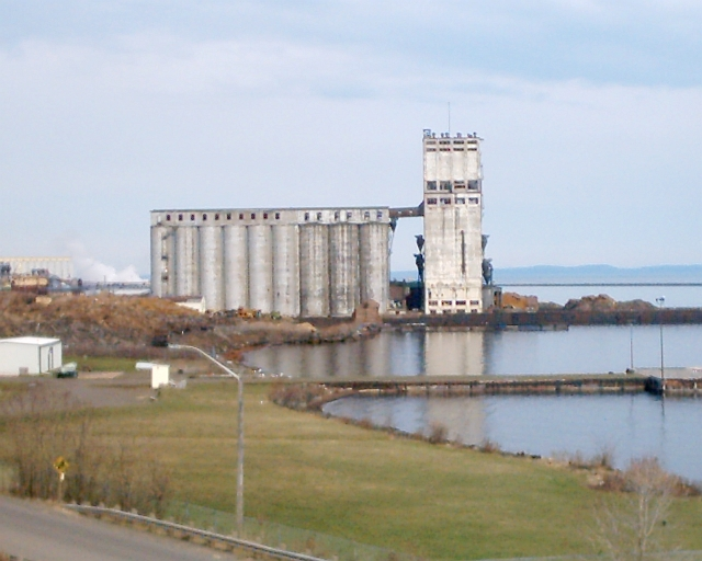 An abandoned grain elevator in Thunder Bay, Ontario.